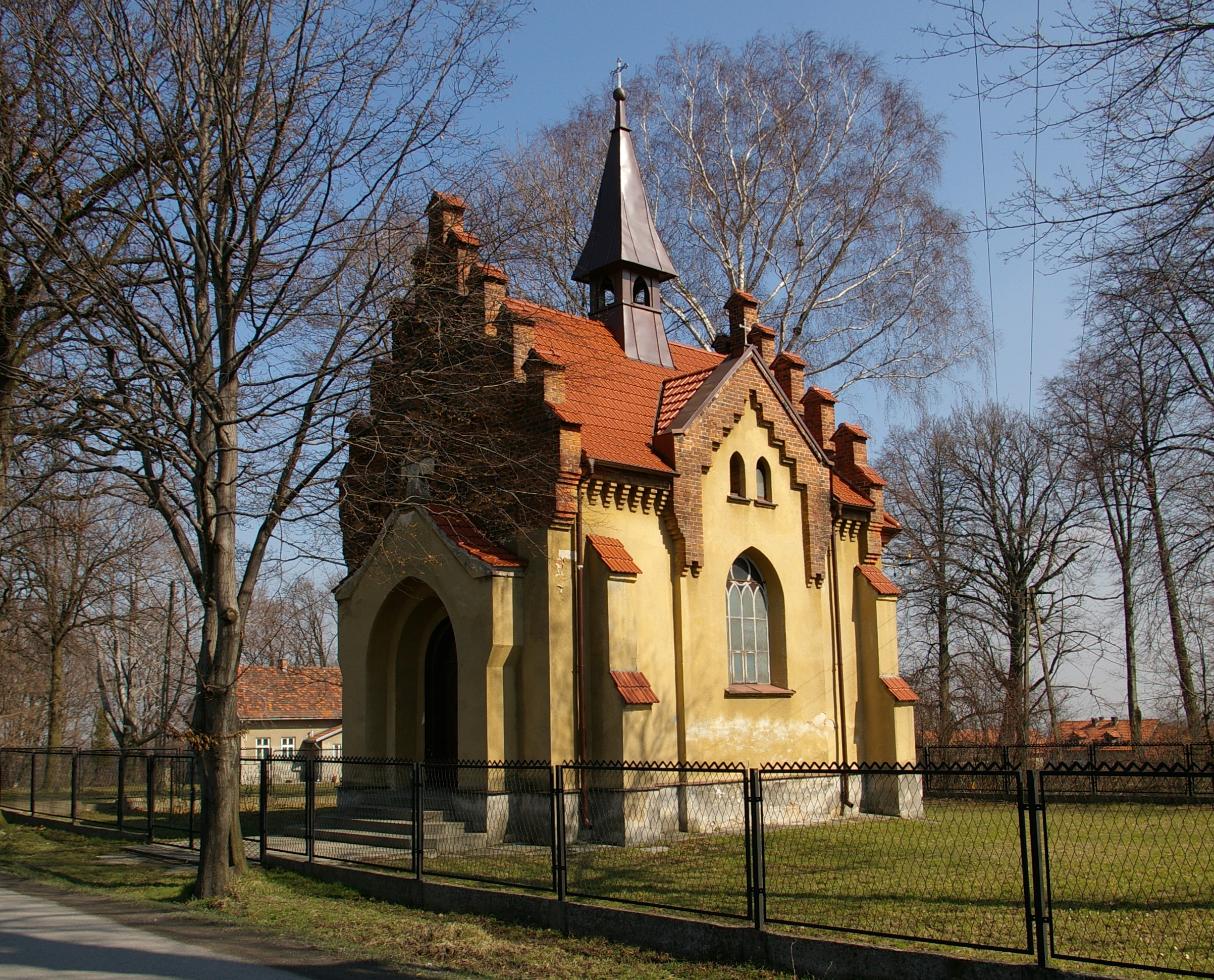 Gothic Revival chapel in Chorowice, Poland